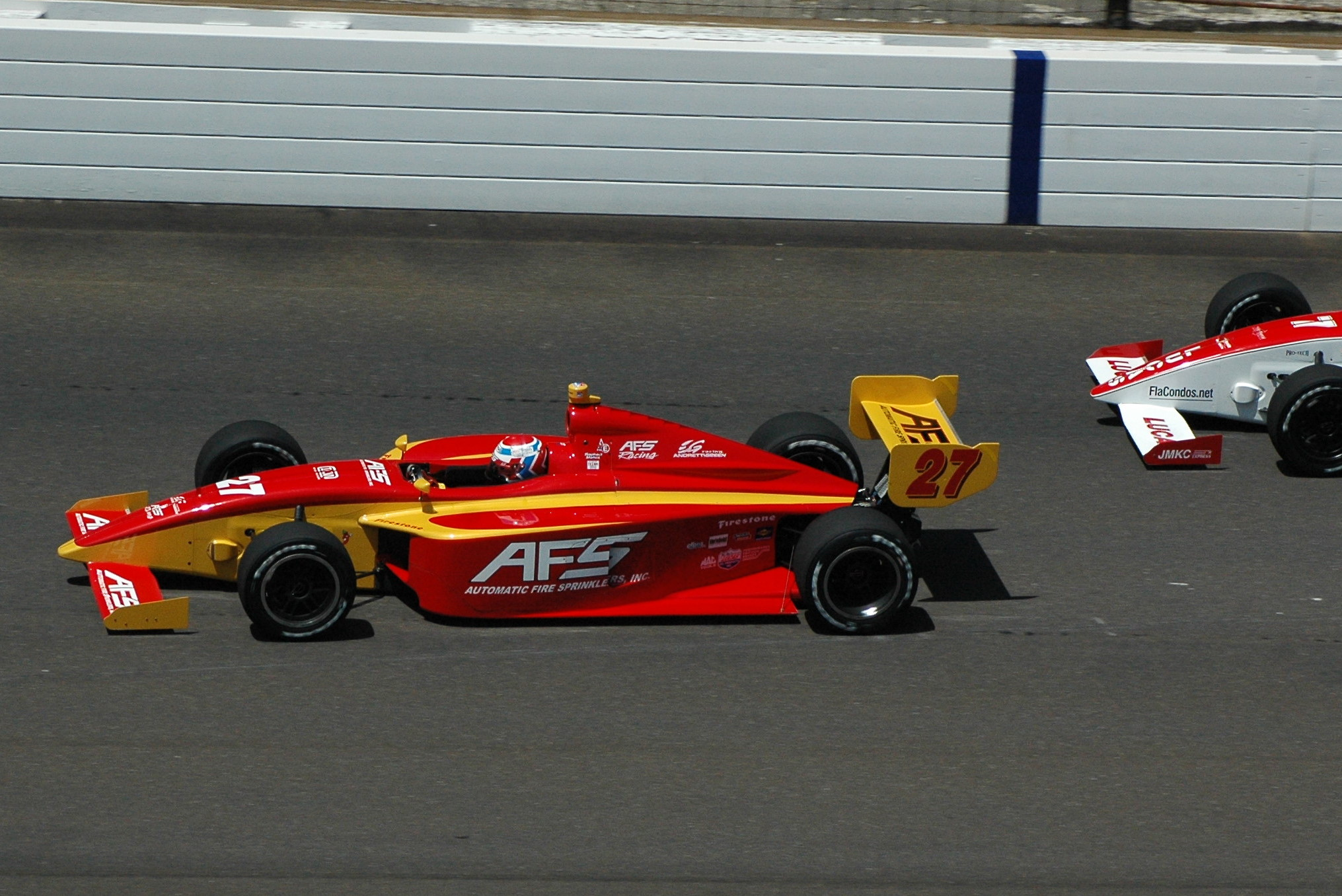 2008 Indy Lights champion Raphael Matos racing in the Firestone Freedom 100